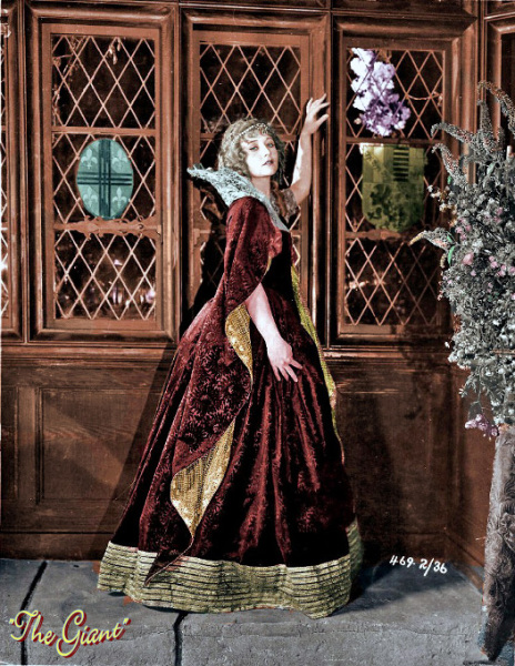 Still from the American film To Have and to Hold (1922) with Betty Compson.